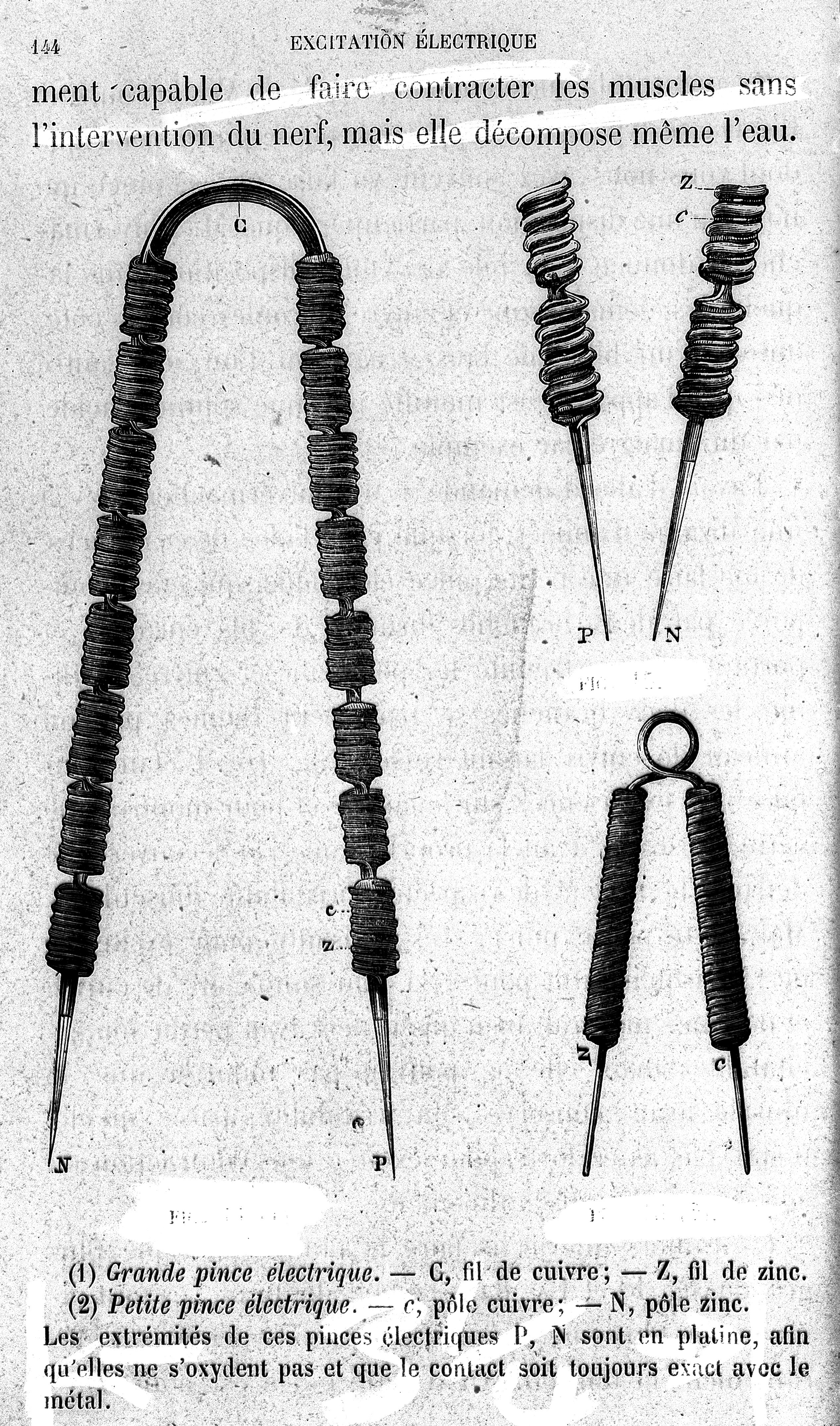 Appartus (electro-physiological experiments; zinc-copper couples threaded on pincers) used in experiments on curare and its effect on nerves and muscles. General Collections Keywords: Claude Bernard; physiologie; Nervous System; Nervous System Physiological Phenomena